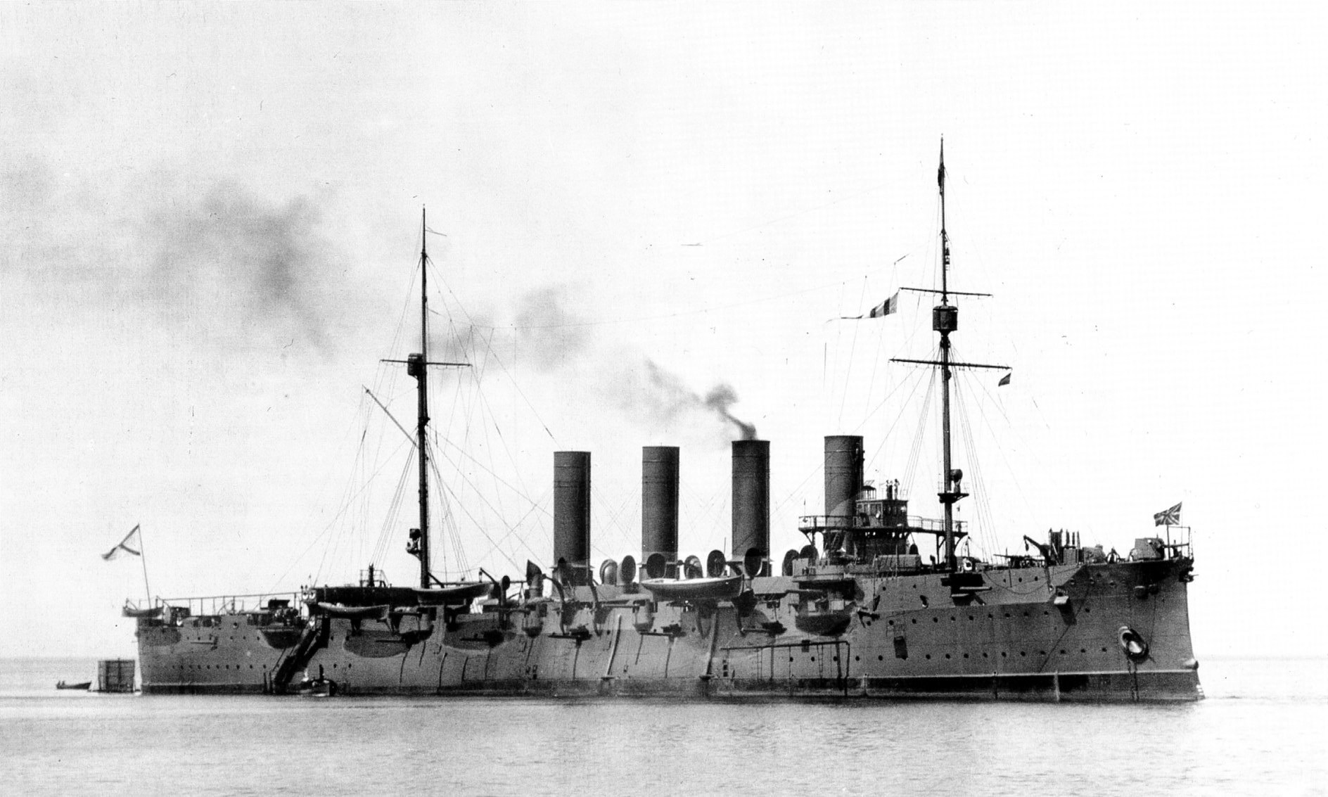 Imperial Russian cruiser Rossiya.